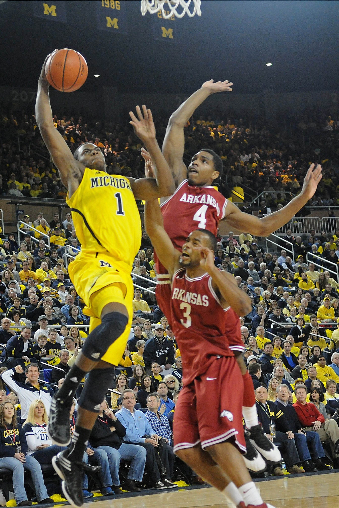 Glenn Robinson III